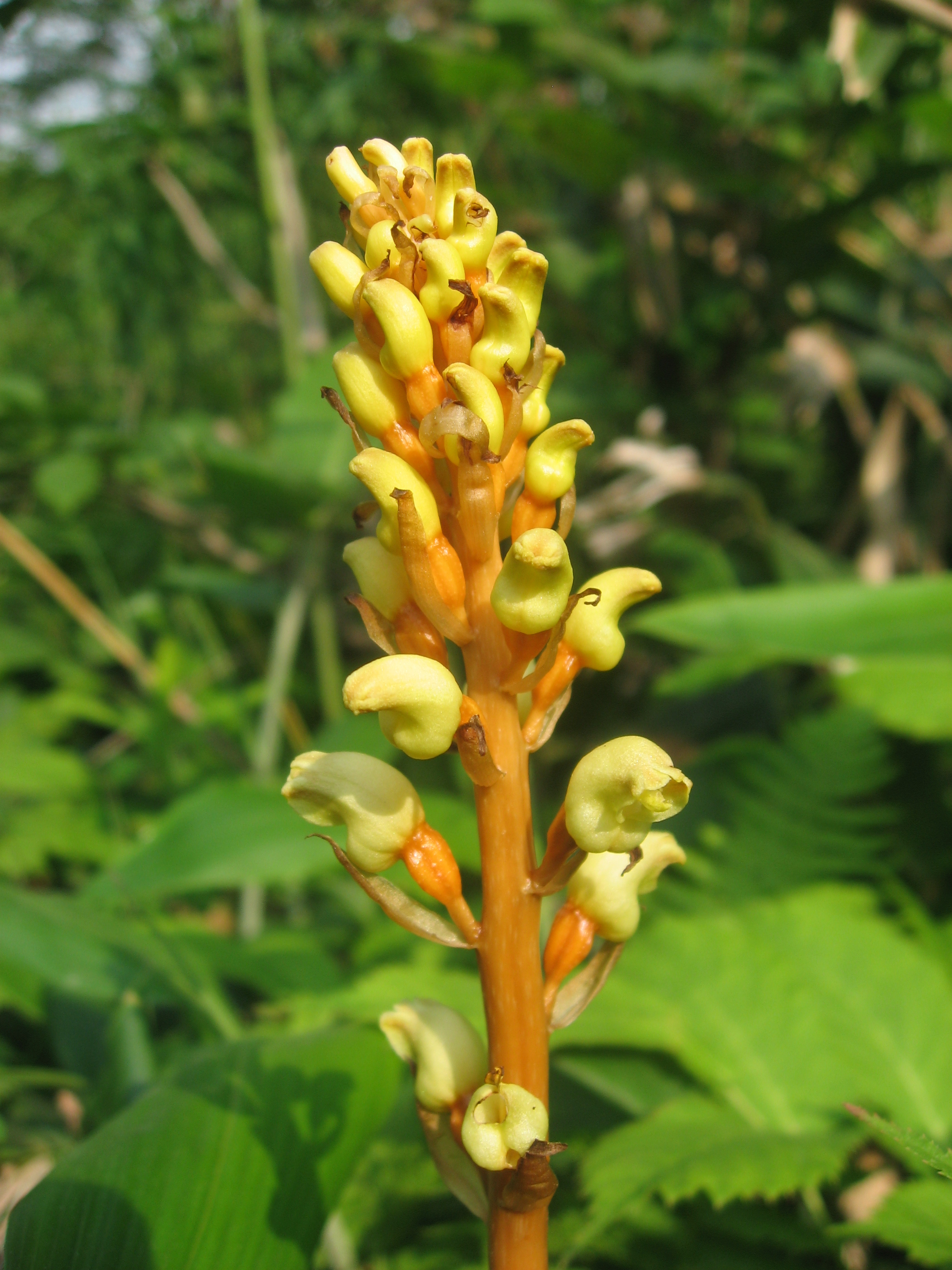 Gastrodia elata, Aizu area, Fukushima pref., Japan